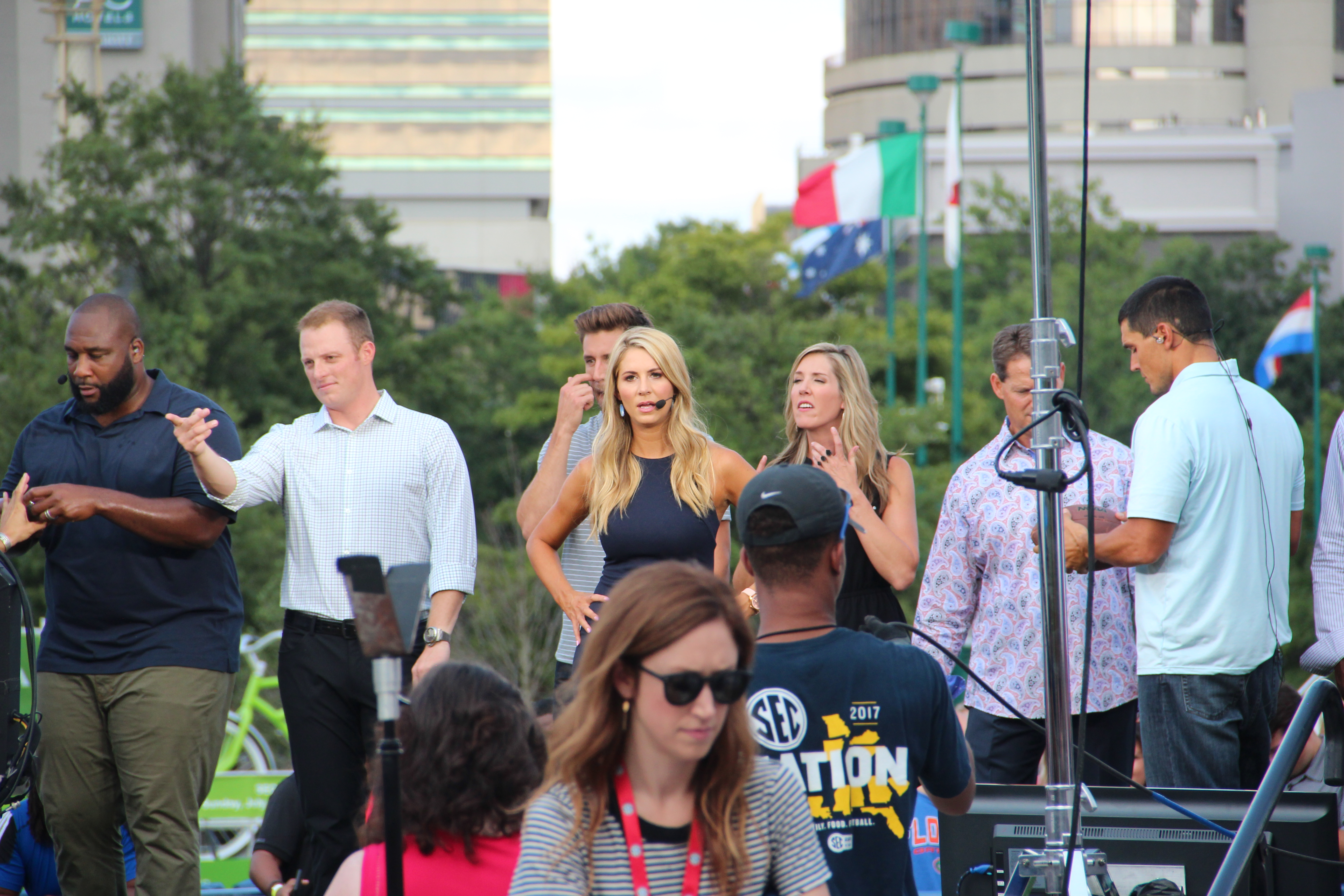 SEC Nation personalities at the 2018 SEC Football Kickoff Summerfest